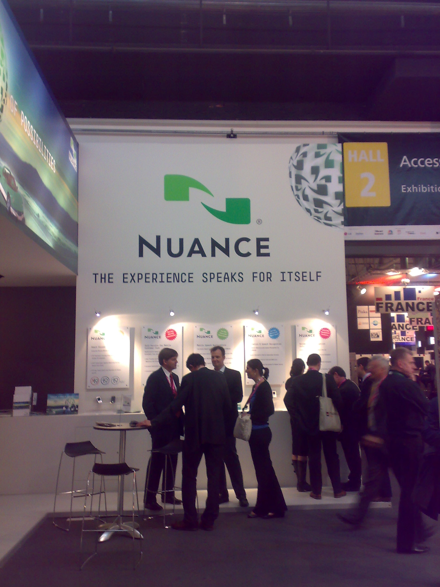 Nuance stand at GSMA Barcelona 2008